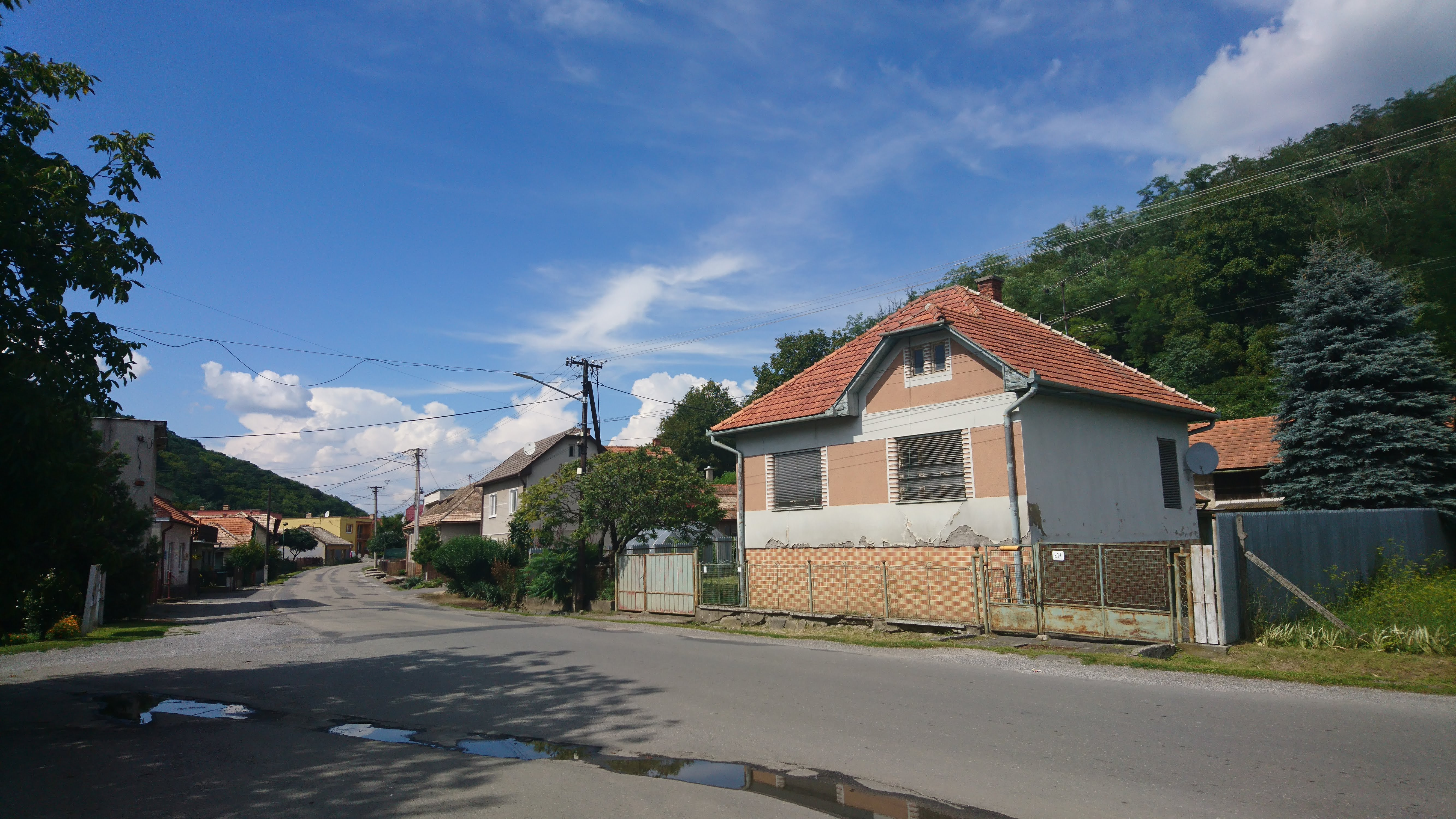 Main street of Hajnacka